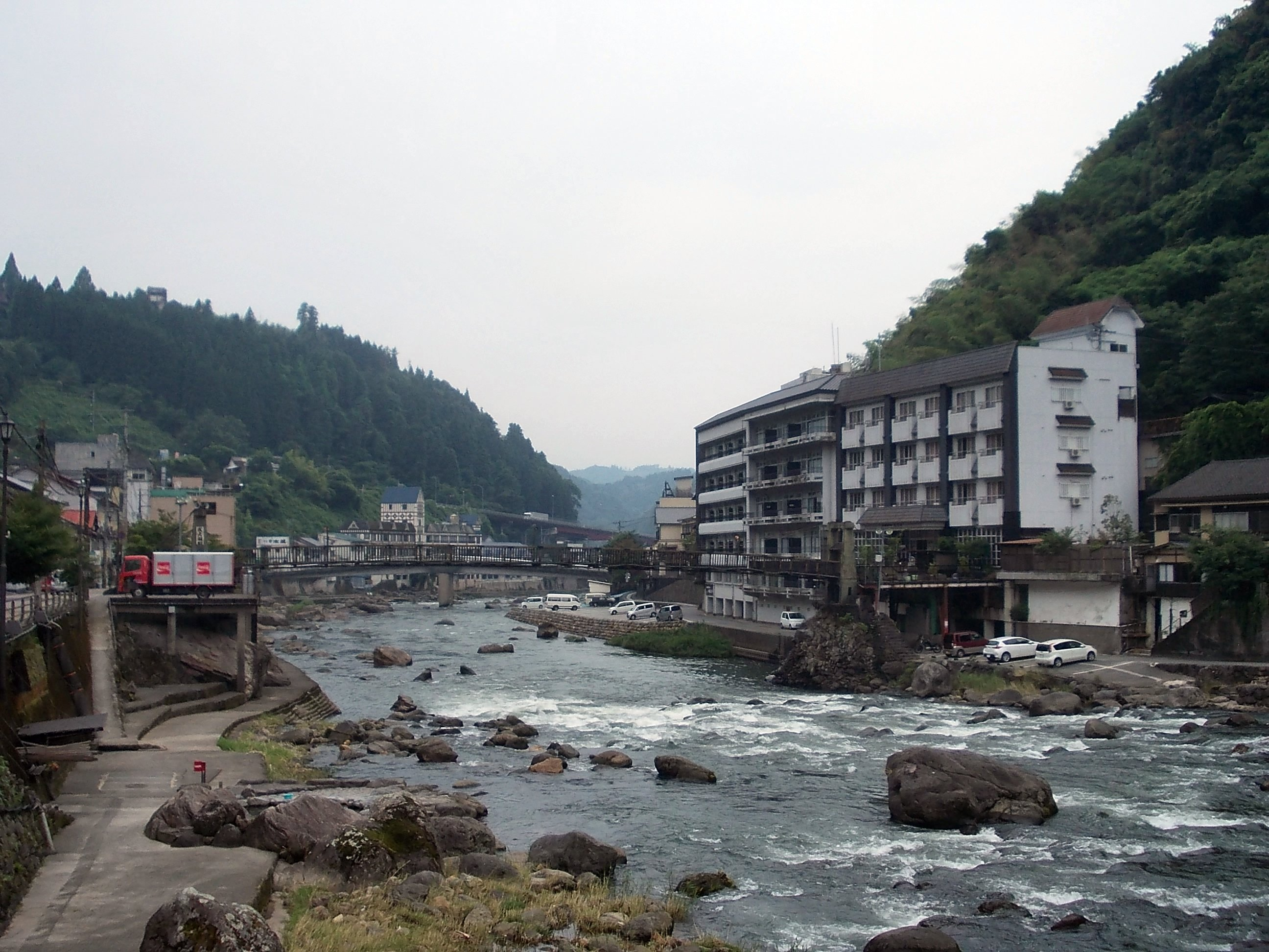 Amagase Onsen hot springs, Hita, Oita, Japan